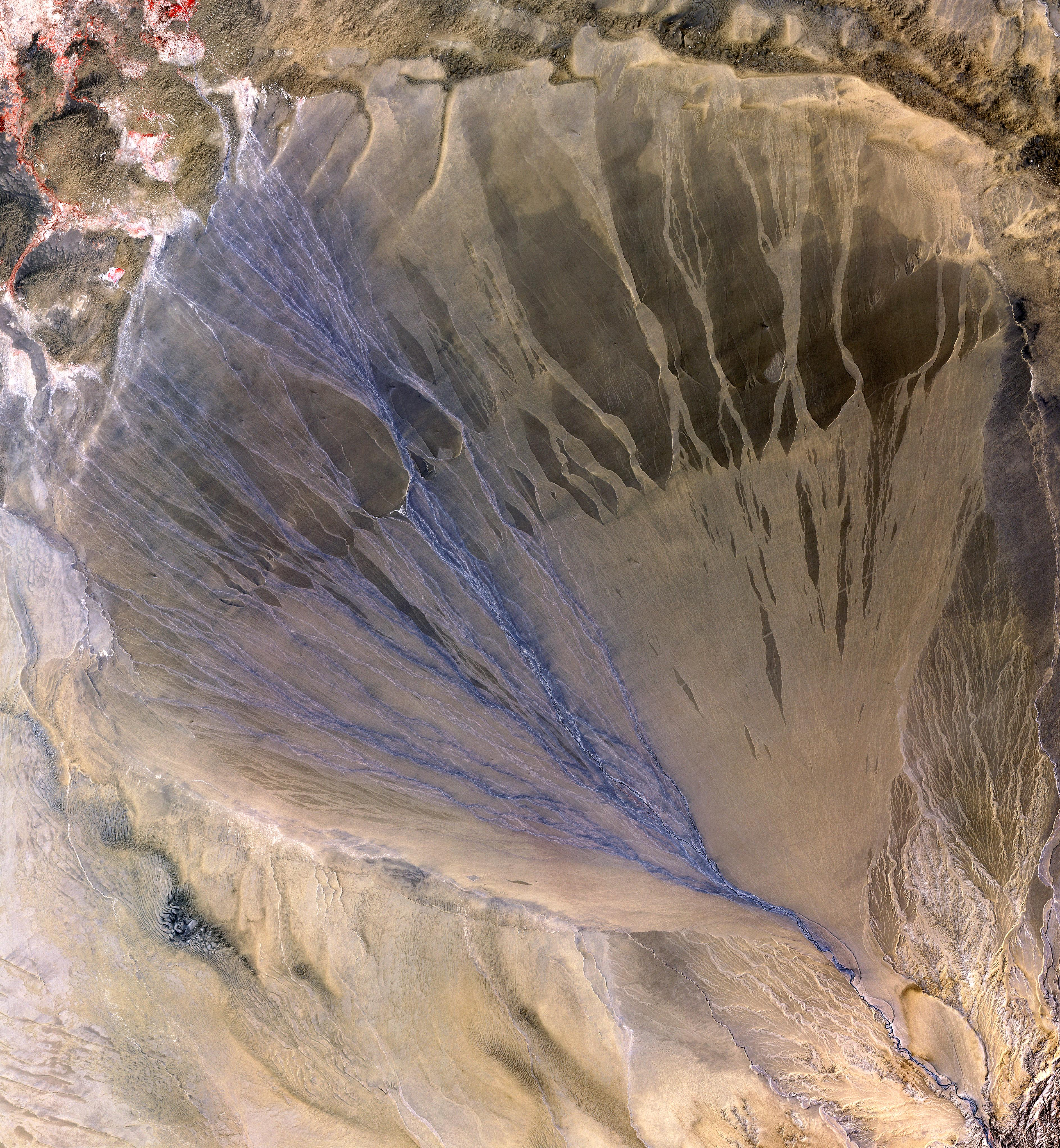 A vast alluvial fan blossoms across the desolate landscape between the Kunlun and Altun mountain ranges that form the southern border of the Taklimakan Desert in China’s XinJiang Province. The left side is the active part of the fan, and appears blue from water currently flowing in the many small streams. The image was acquired May 2, 2002, covers an area of 56.6 × 61.3 km, and is centered near 37.4 degrees north, 84.3 degrees east.) A view of Google Maps and county maps in Xinjiang provincial atlas shows that the alluvial fan is formed by the river called Mòlèqiē Hé (莫勒切河) in Chinese (which, of course, is a Chinese "transcription" of a Uyghur name - sometimes transcribed as Molcha River). The fan is located in the western part of the Qiemo County.